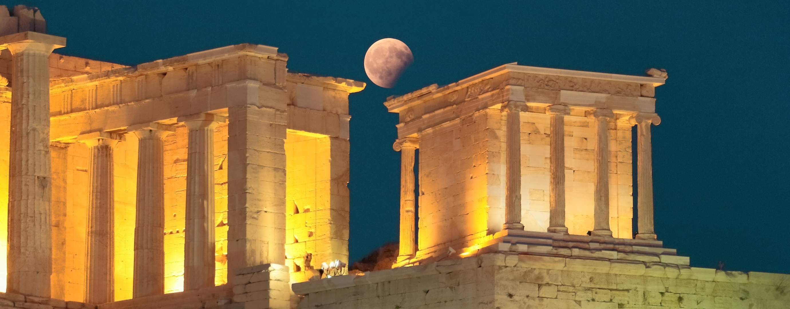 Partial lunar eclipse over Acropolis of Athens,Temple of Athena Nike, August 7, 2017 «Ακρόπολη Αθηνών»